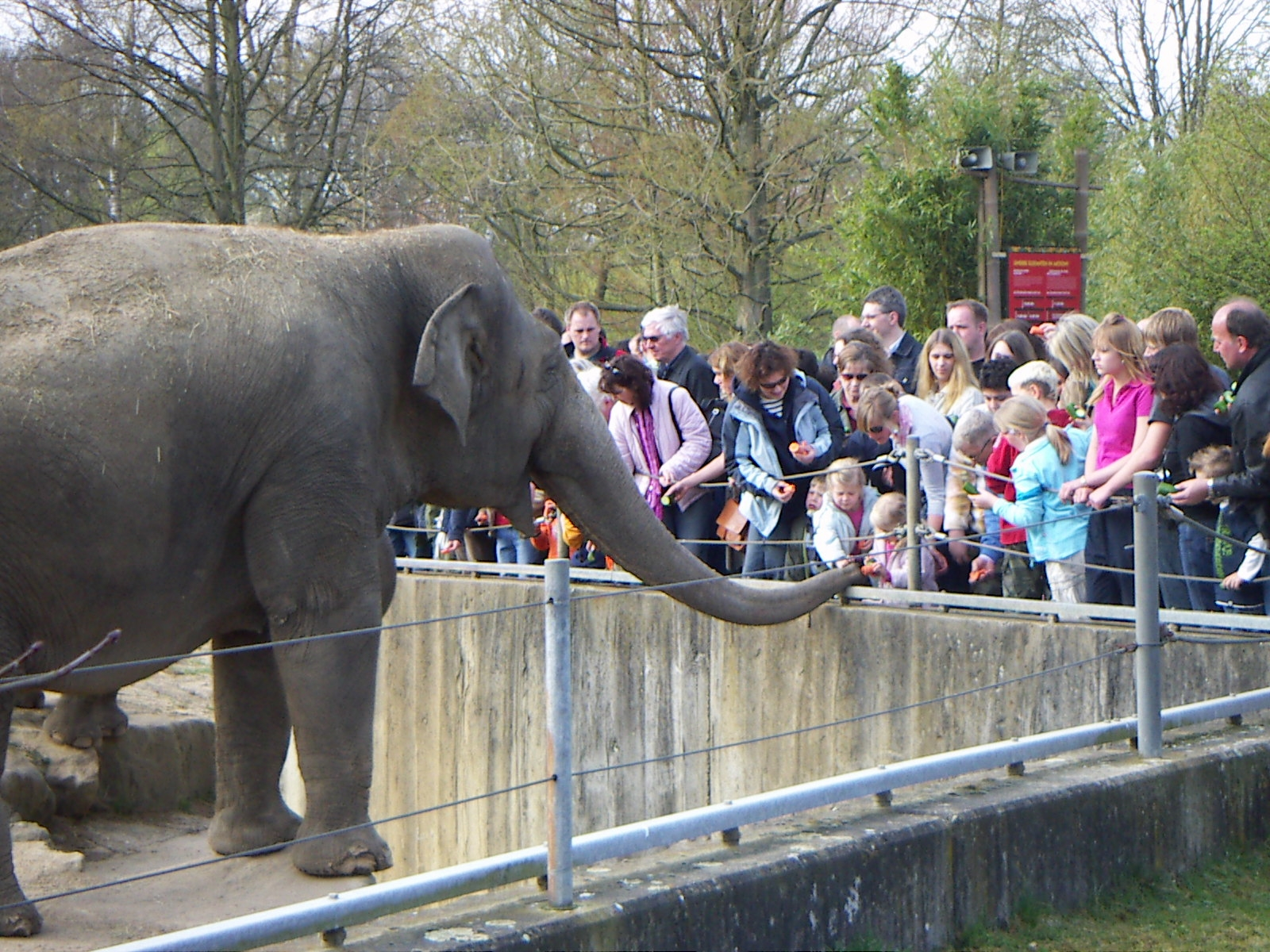 feeding time for elephants in the zoo of Münster (Westphalia)